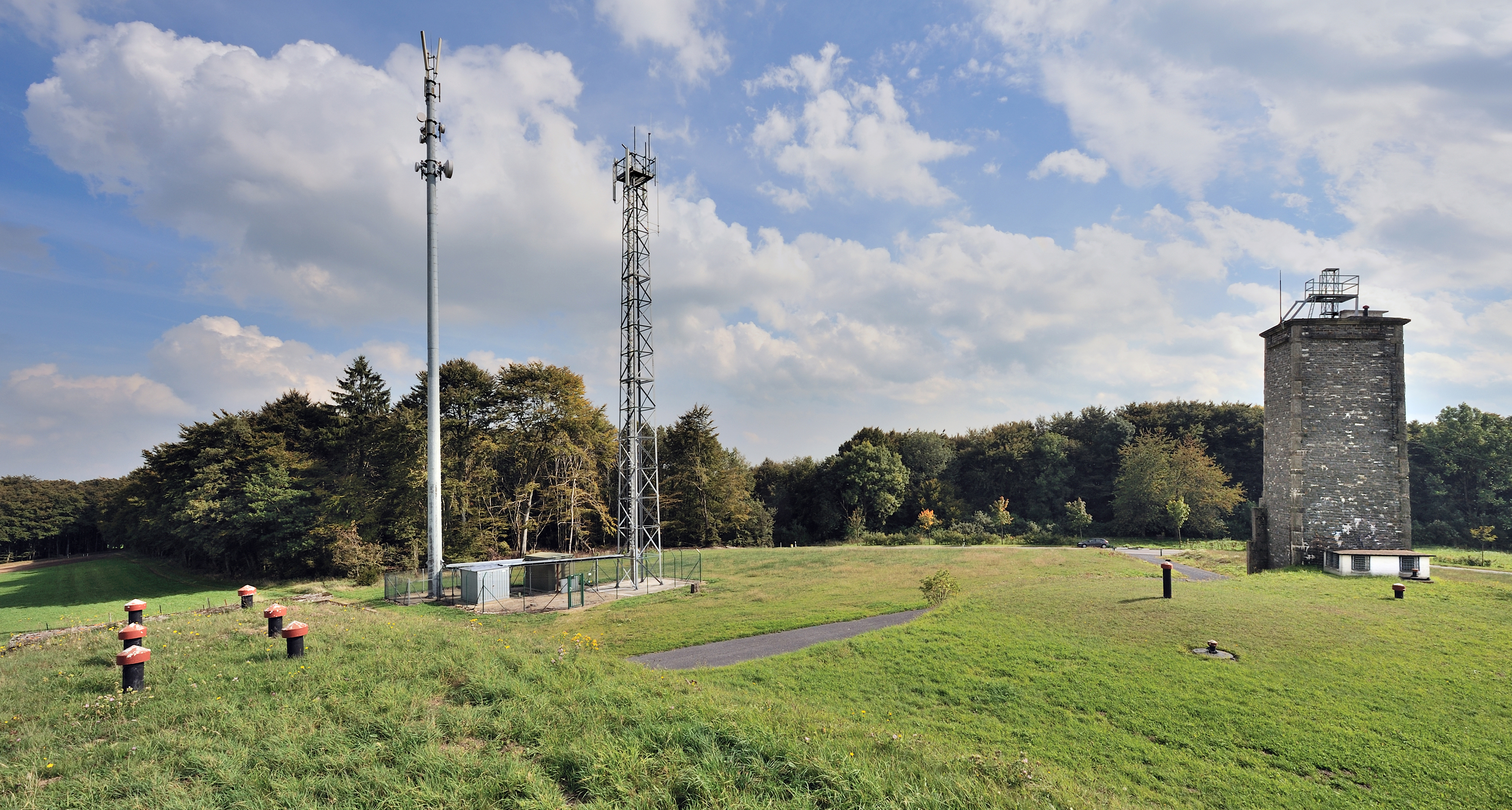 Luxembourg, commune of Rambrouch: Jardin Napoleon.